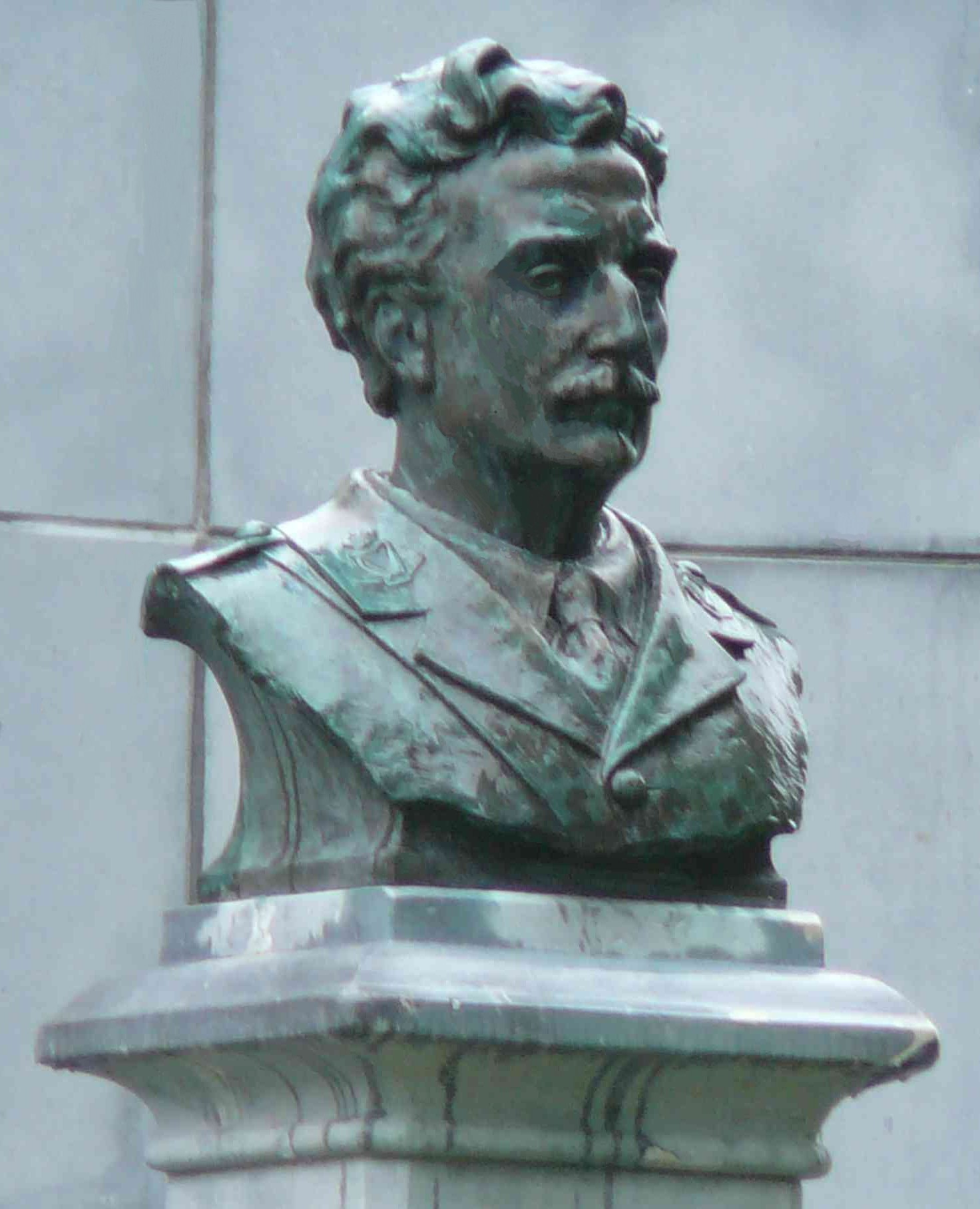 Bronze bust of Major William (Willie) Hoey Redmond (1861-1917) MP exhibited in the Redmond Memorial Park, Wexford city, Ireland. The bust was cast by the Irish sculptor Oliver Sheppard.The monument was erected to commemorate the memory of Major Willie Redmond, a native of Ballytrent, County Wexford, who was killied in action at Messines Ridge on the Western Front on 7 June 1917.